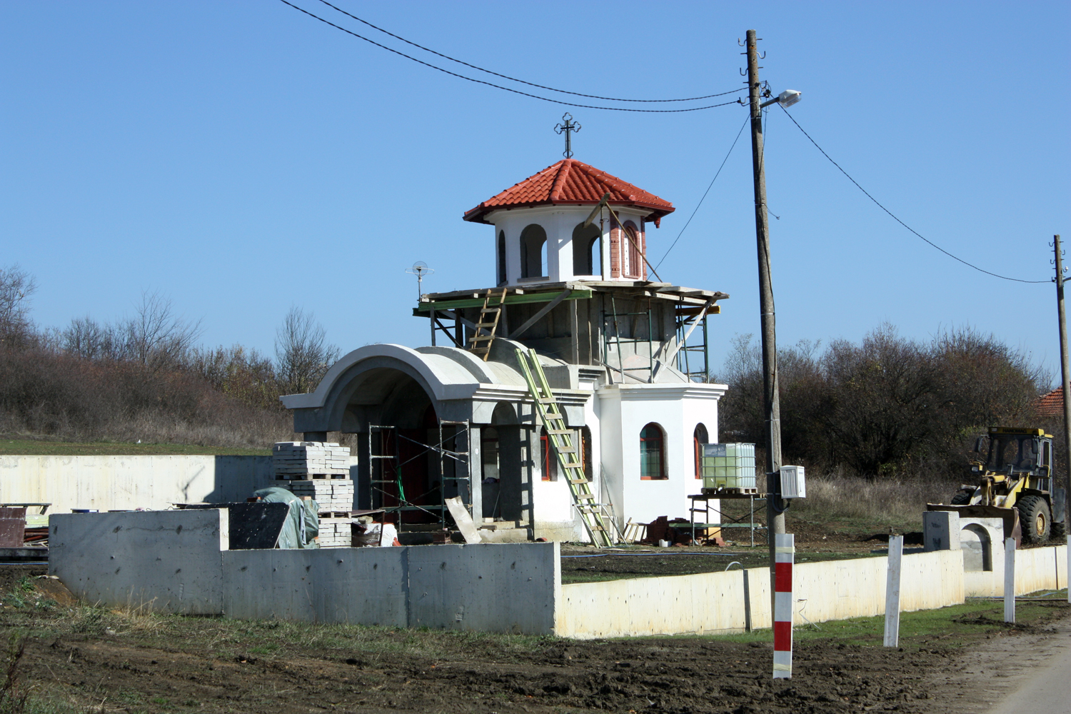 Building a new church in Kalenovtsi